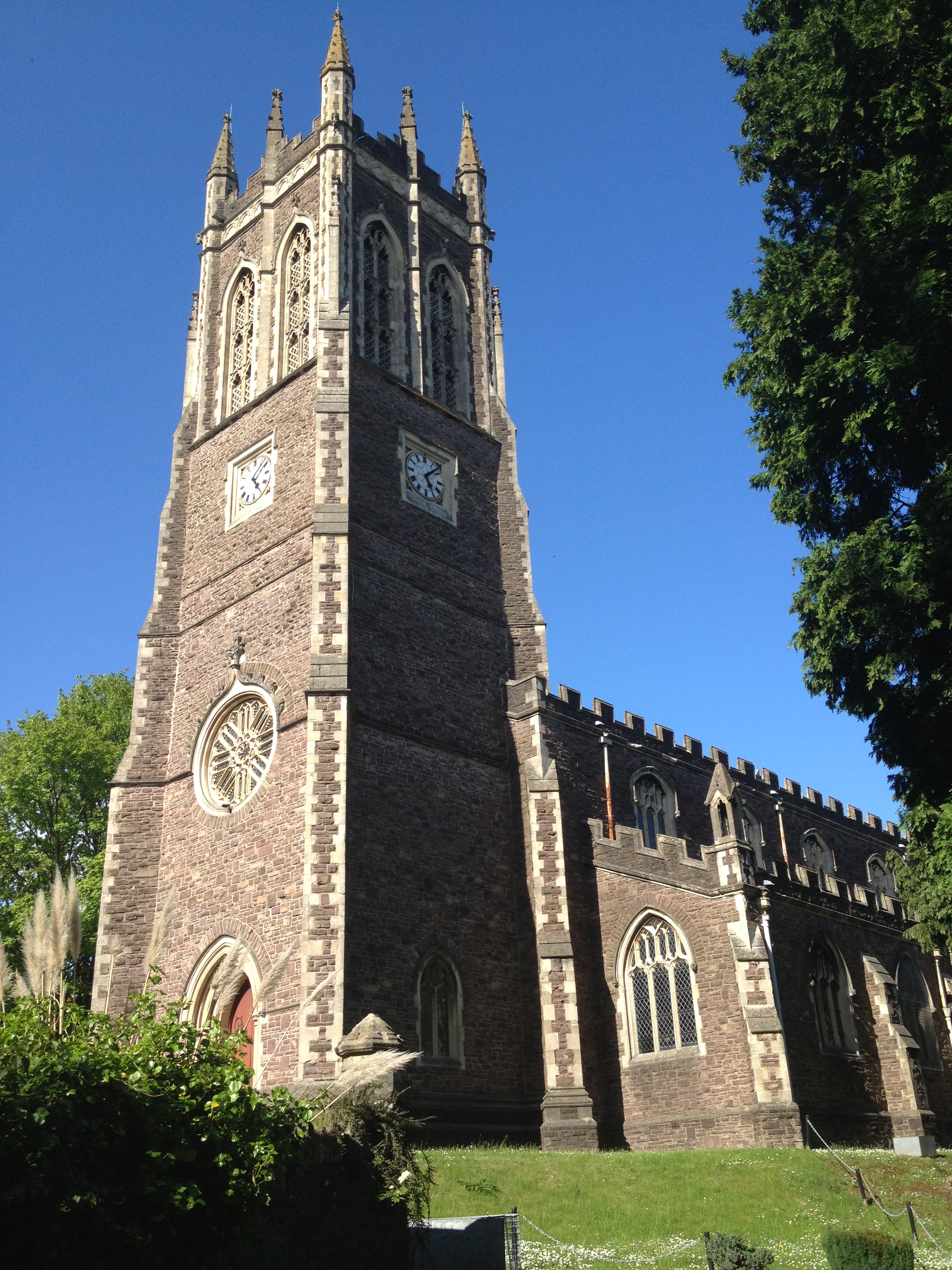 Church of St Mark, Newport, South Wales.